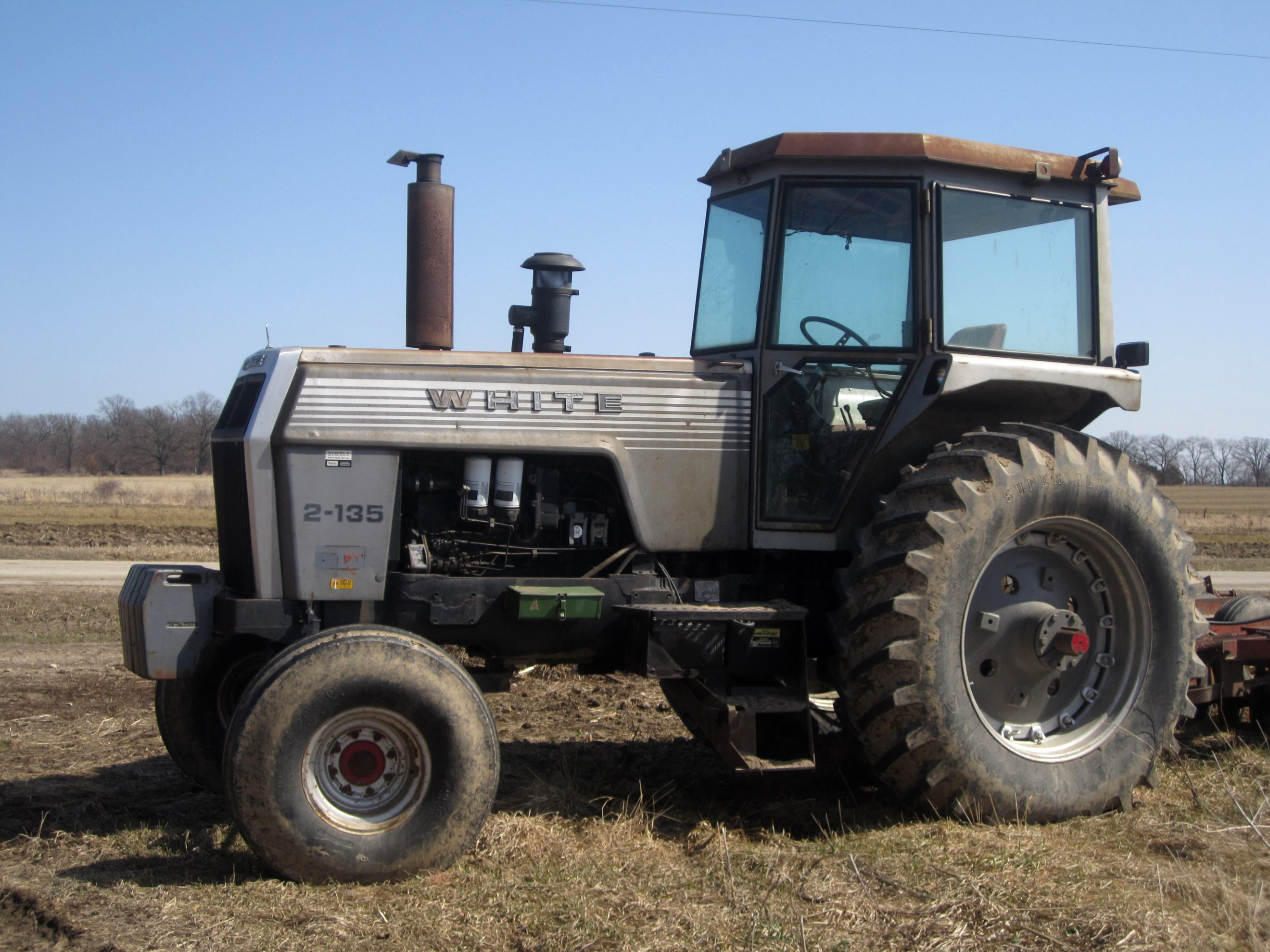 A White Field Boss 2-135 tractor somewhere in Illinois, USA